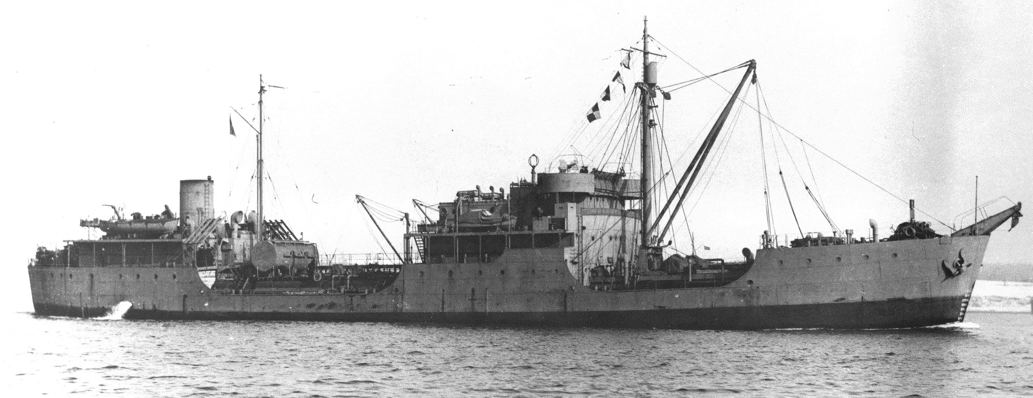 HMCS Provider F100. Sister to HMCS Preserver, she was commissioned at Sorel on 1 Dec 1942, and arrived at Halifax on 14 Dec.